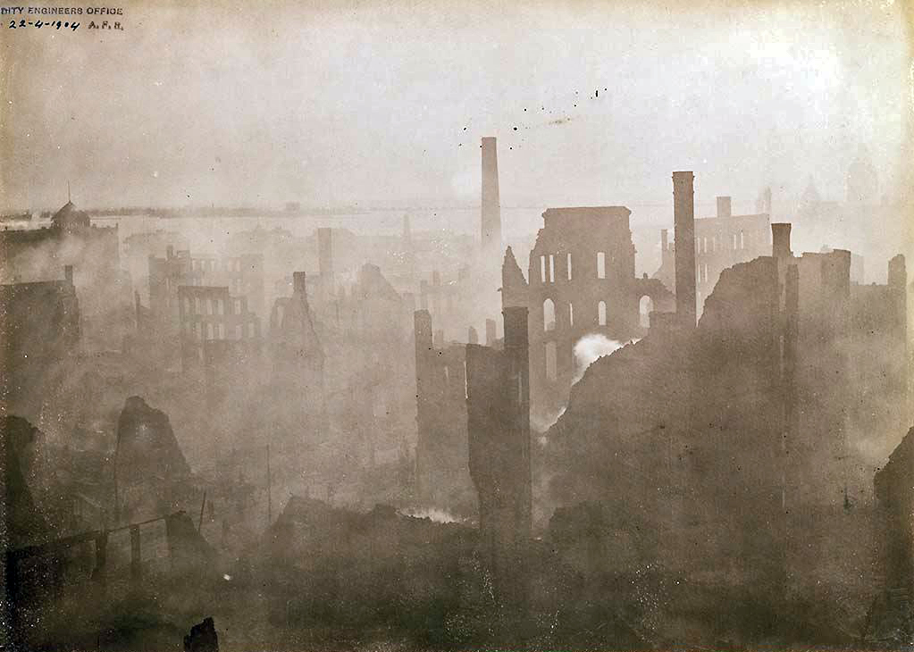 Toronto fire 1904, looking south from the top of the bank